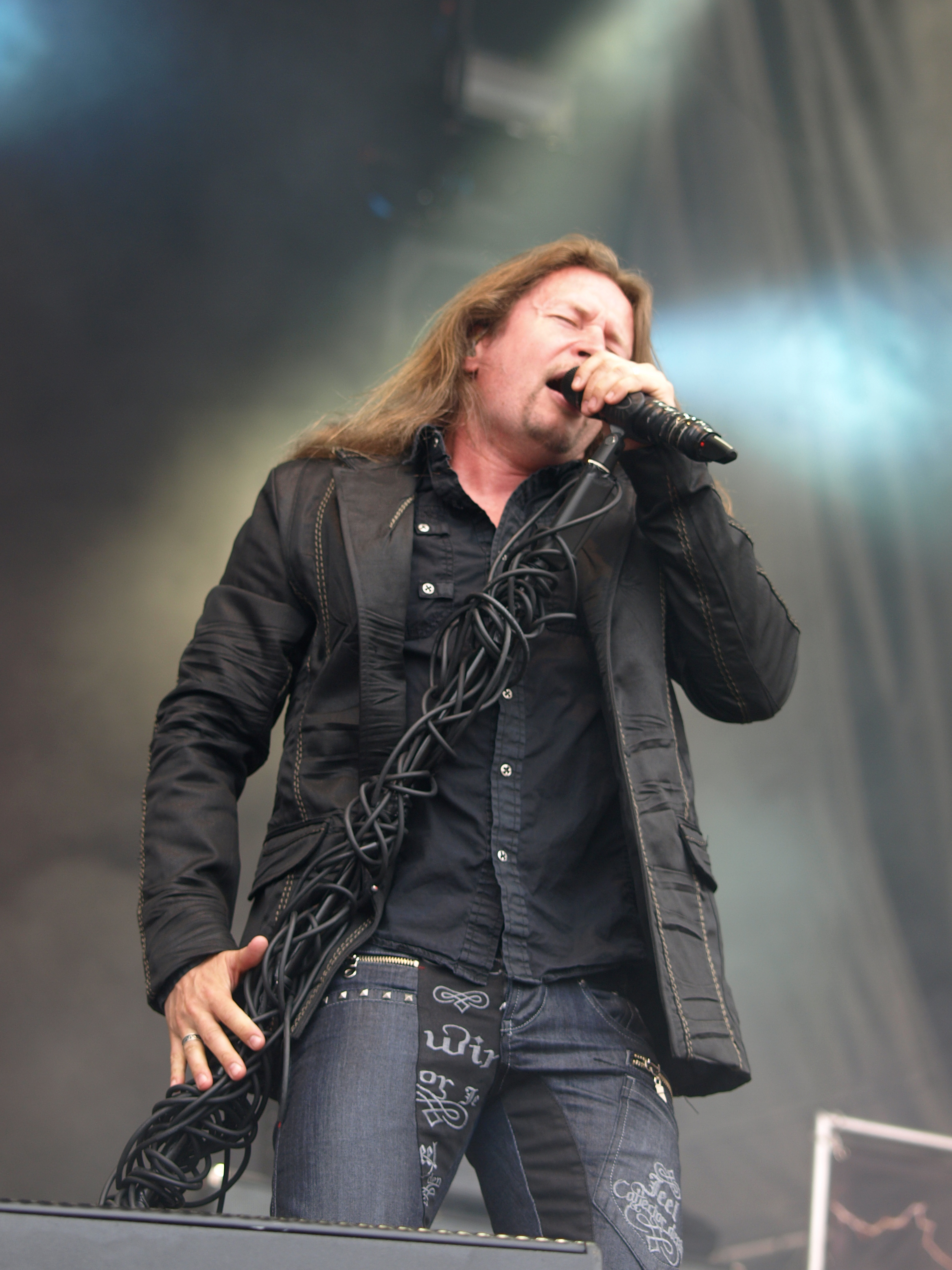 Finnish band Stratovarius at Tuska Open Air 2013